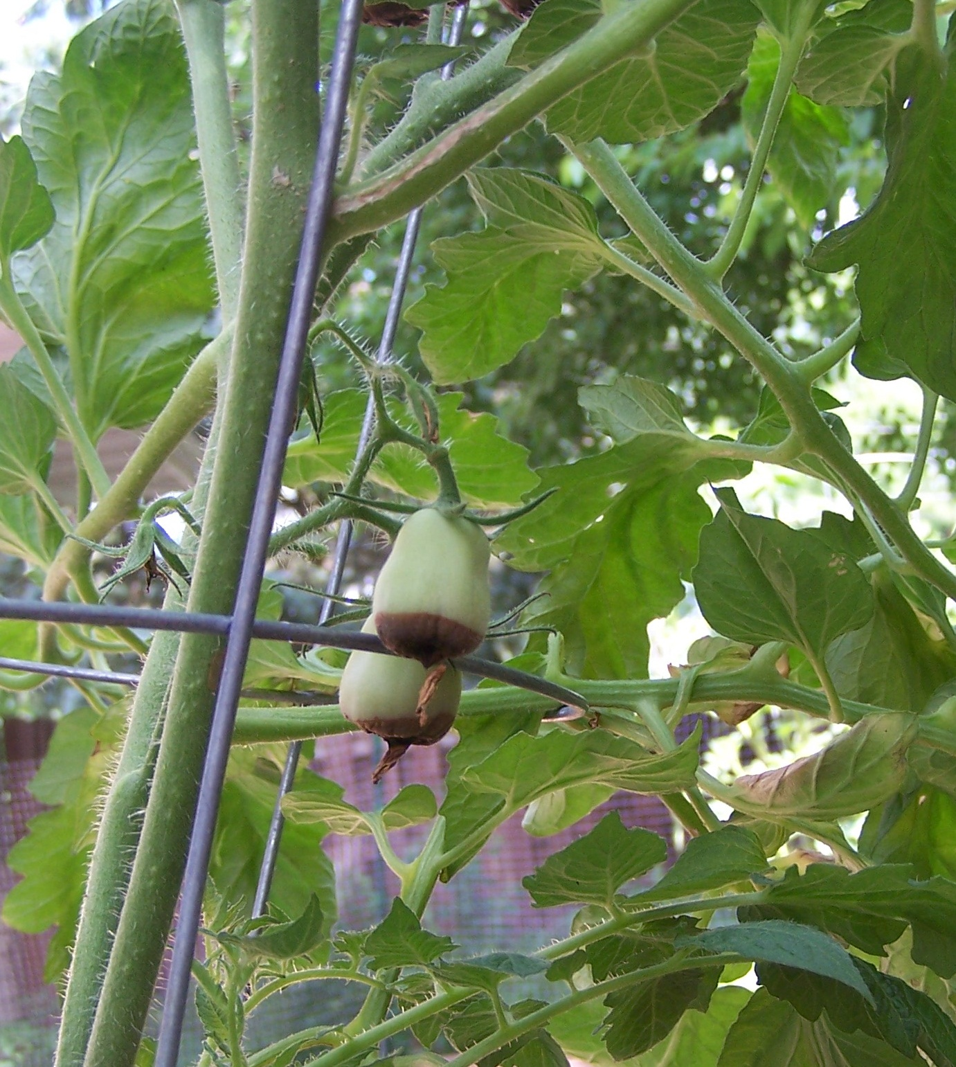 Blossom End Rot on Potted Grape Tomato Plant